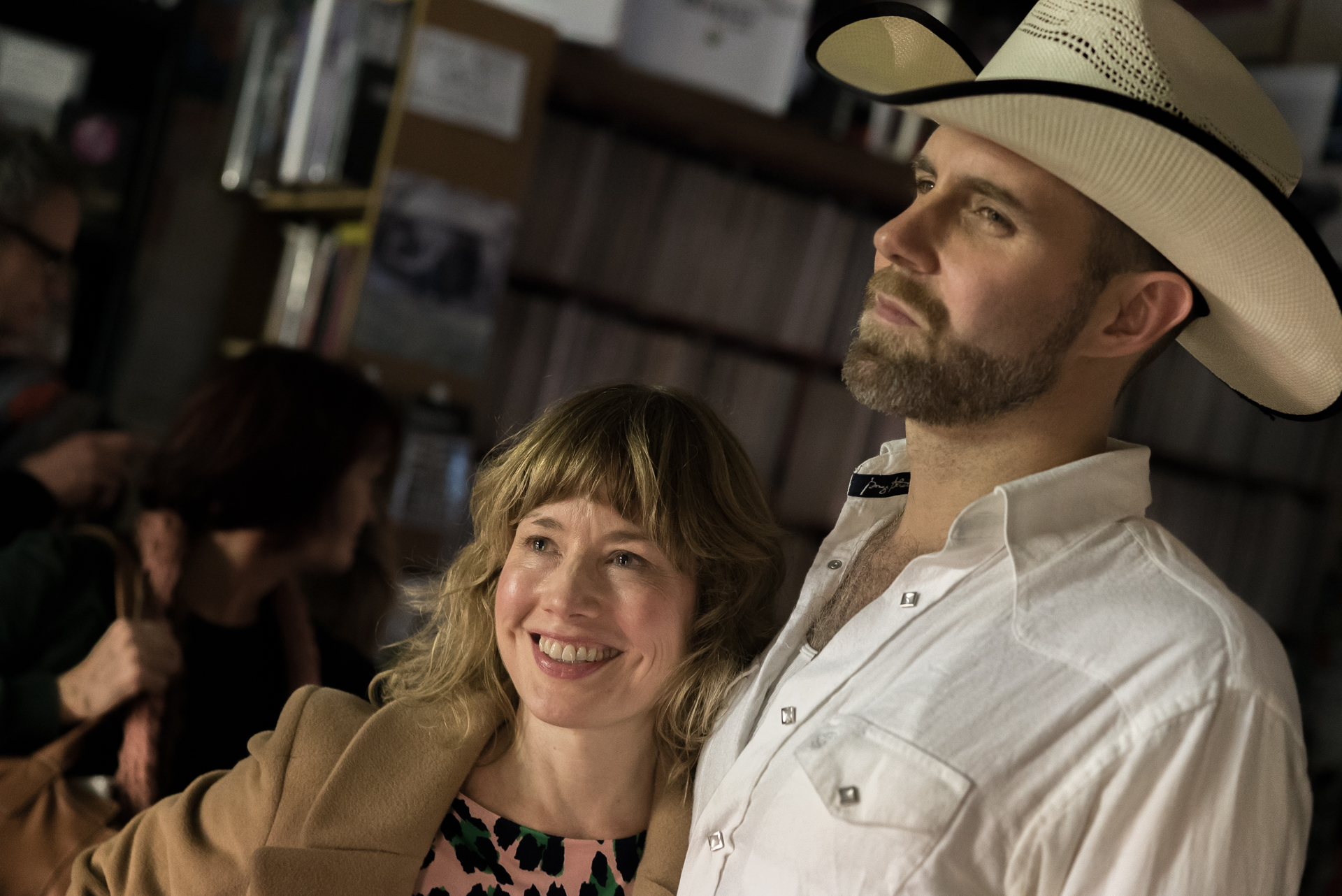 Josh T. Pearson with Katie Puckrik at Rough Trade.